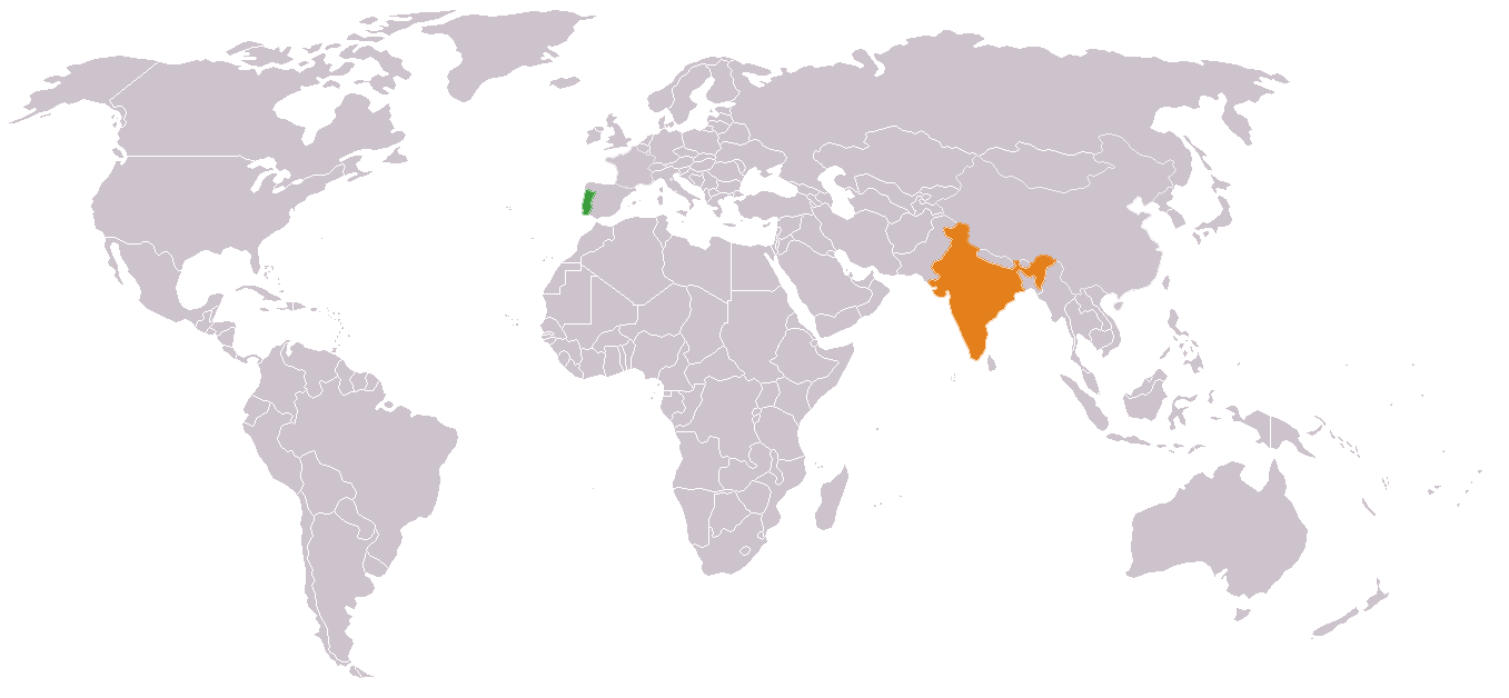 Locator map for India and Portugal